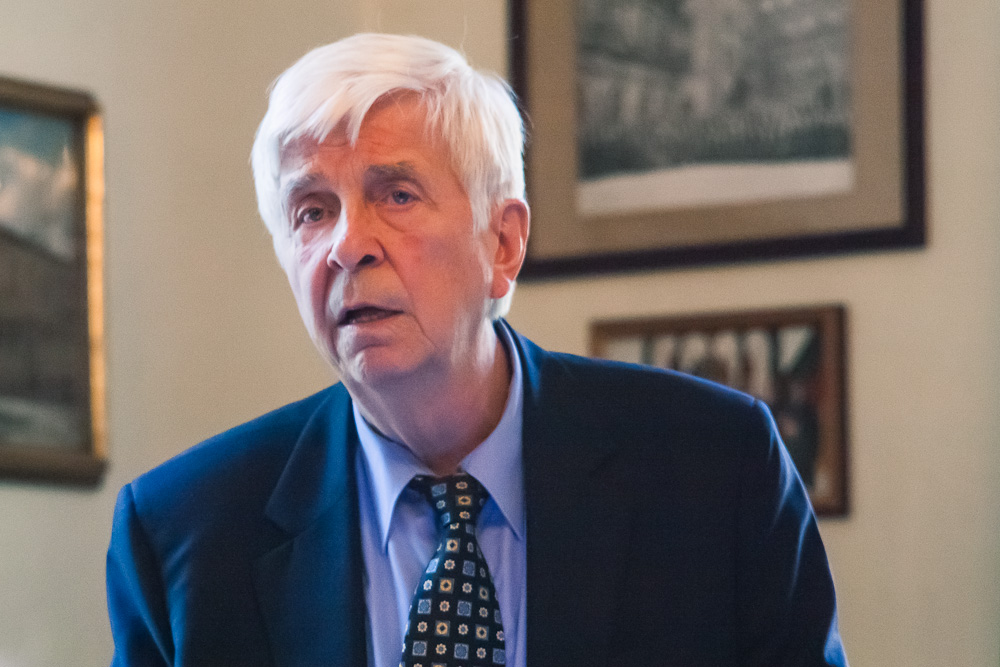 Dr. Hans-Christian Ueberschaer giving a presentation.